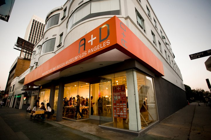 A+D Museum: Los Angeles